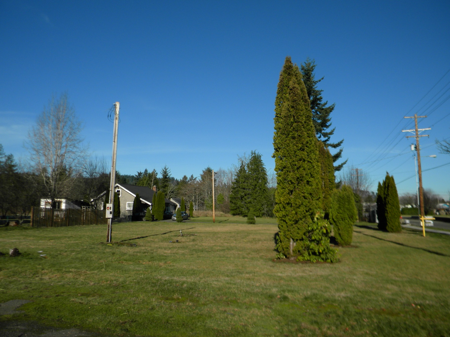 Holy Cross Polish National Catholic ChurchA wood frame church occupied this Site from 1916 to March, 2010. The lot is currently for sale.